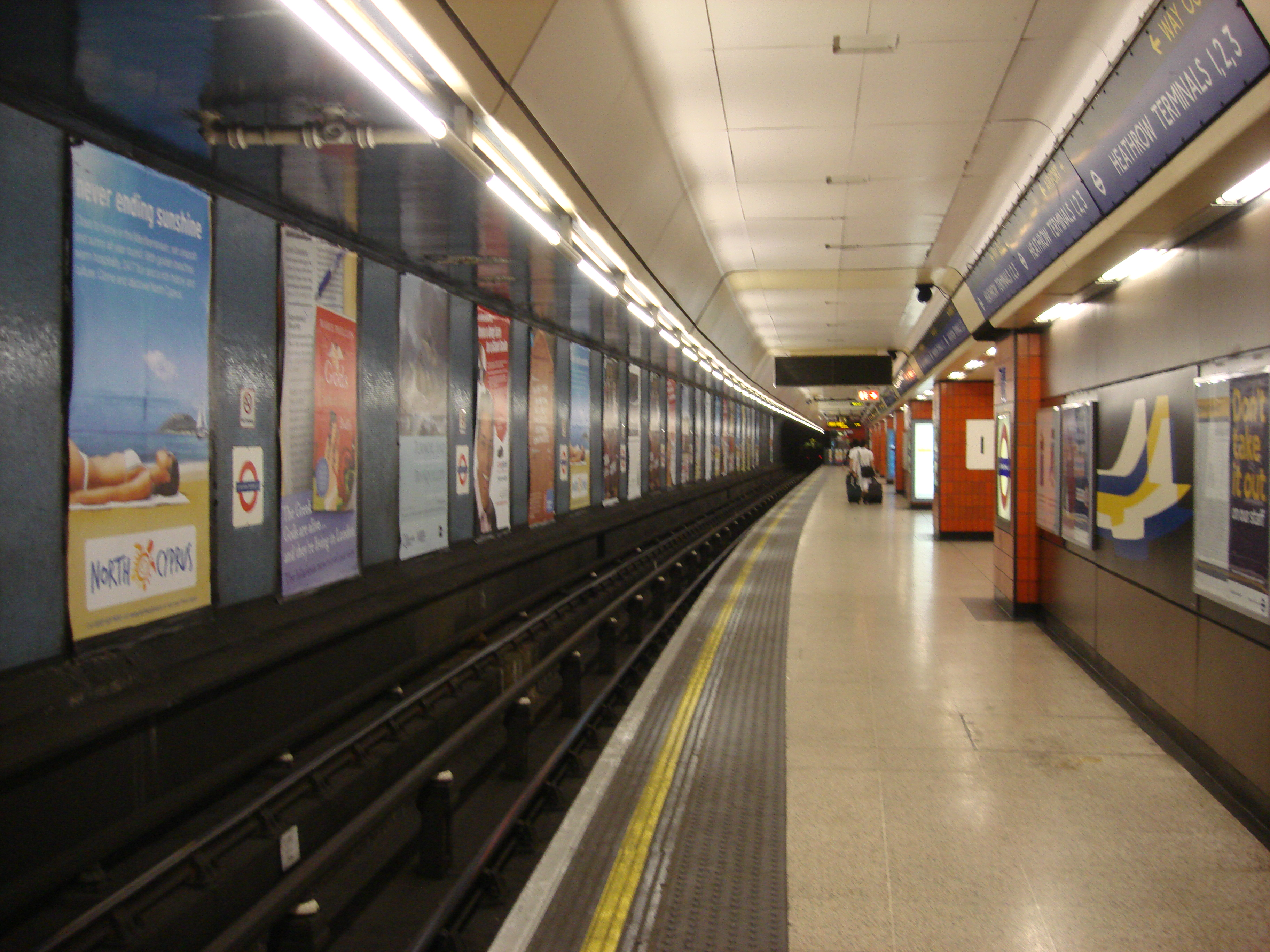 Platform at Heathrow Terminals 1, 2, 3 tube station